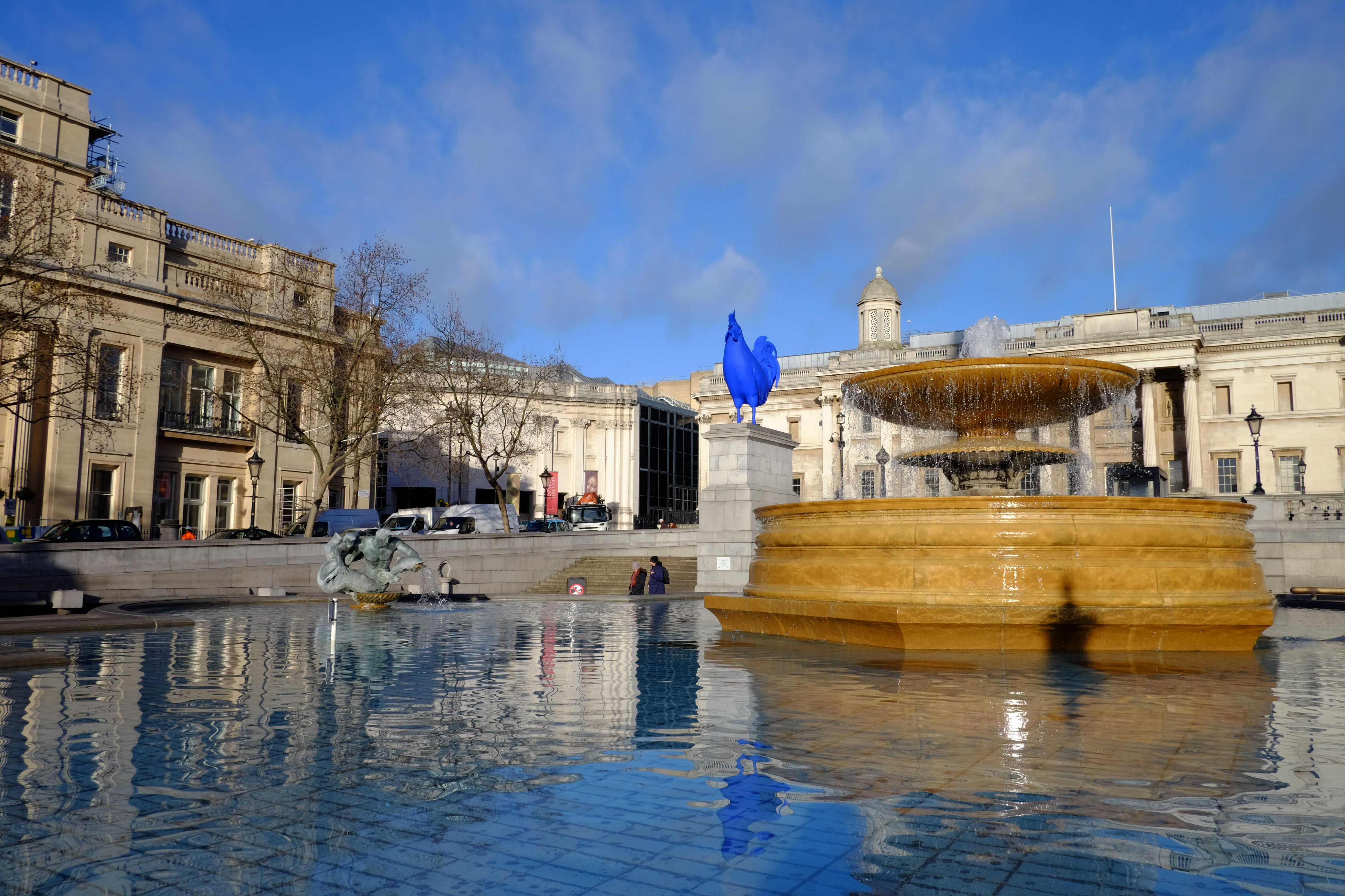 The shade is from Nelson's Column in Trafalgar Square